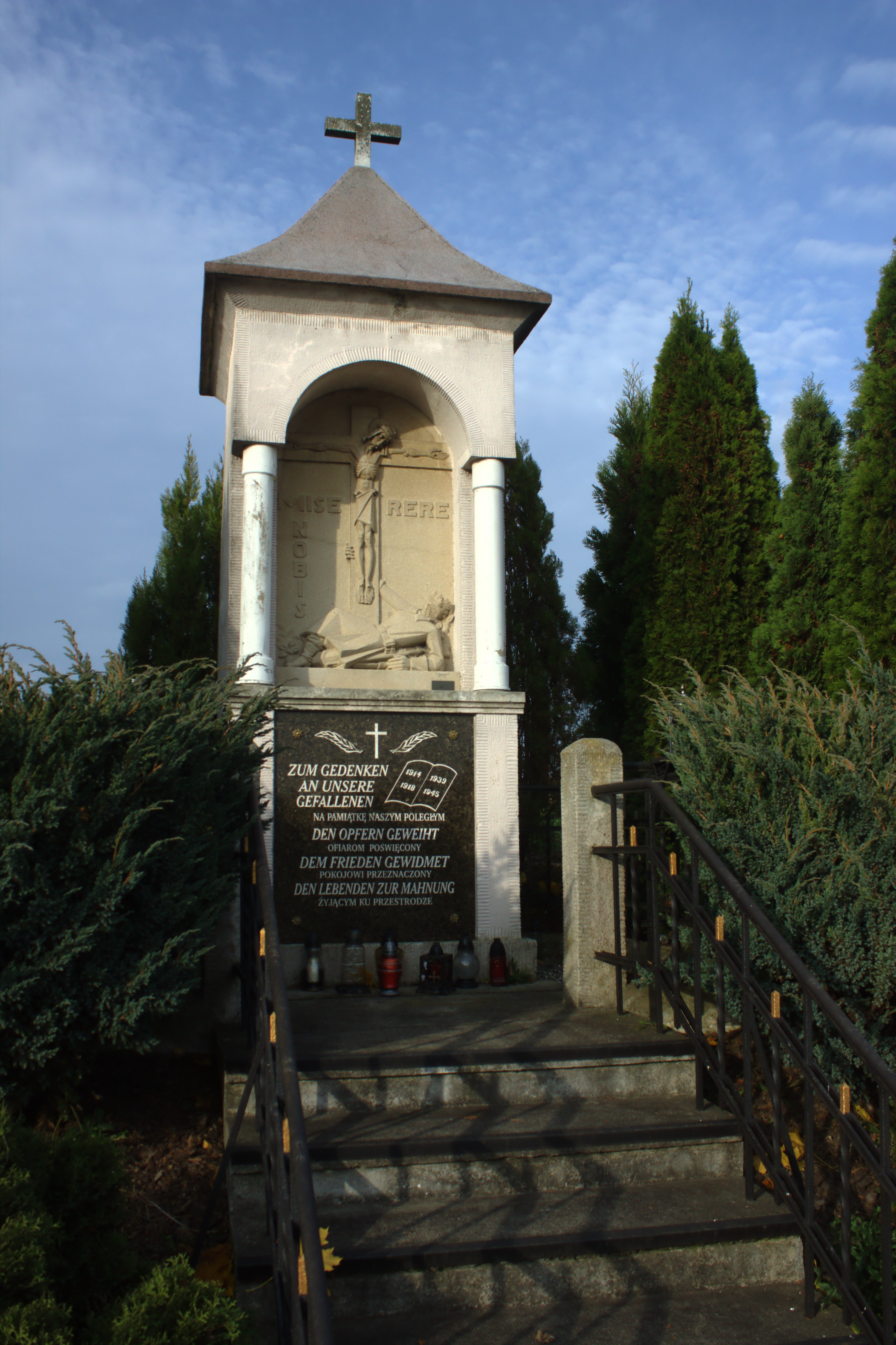 A chapel in the village of Lekartów (northern part), Silesian Voivodeship, PL